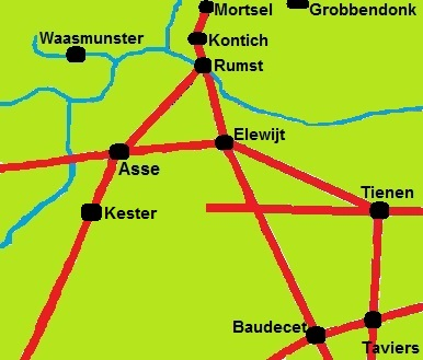 Roman roads in the region of Flemish Brabant